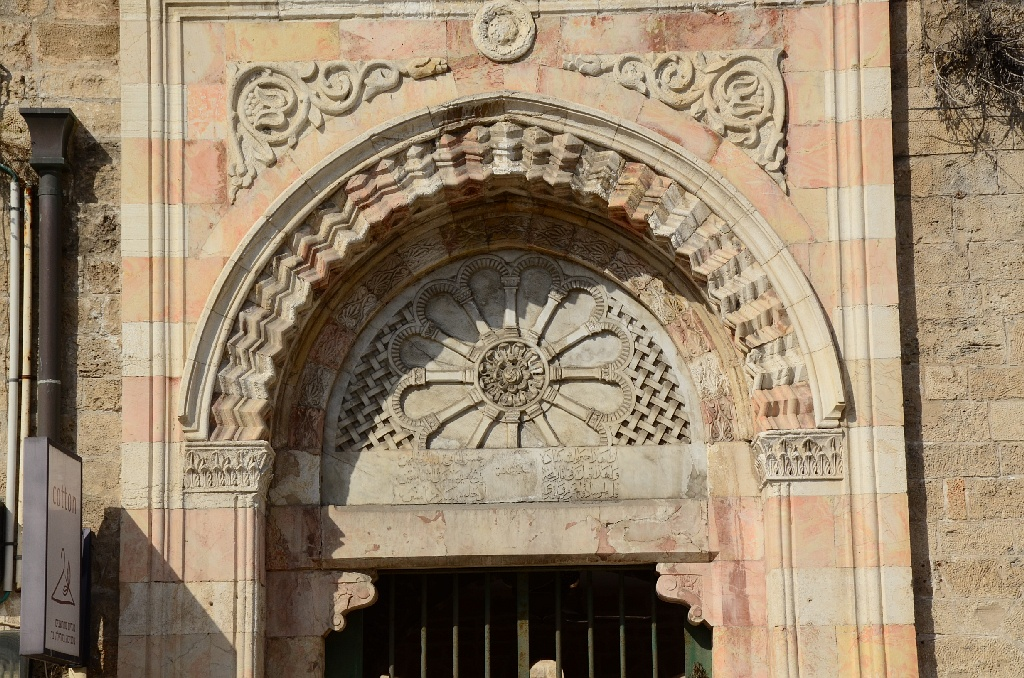 Wikipedians tour in the abandoned colony of Har-Tuv סיור ויקיפדים במושבה הנטושה הר טוב This image was taken as part of the Elef Millim project trip to Jaffa, which was held on Friday, 28th October 2011. To view all images uploaded as part of the Elef Millim Project Around Jaffa Clock tower square אזור ככר השעון ביפו